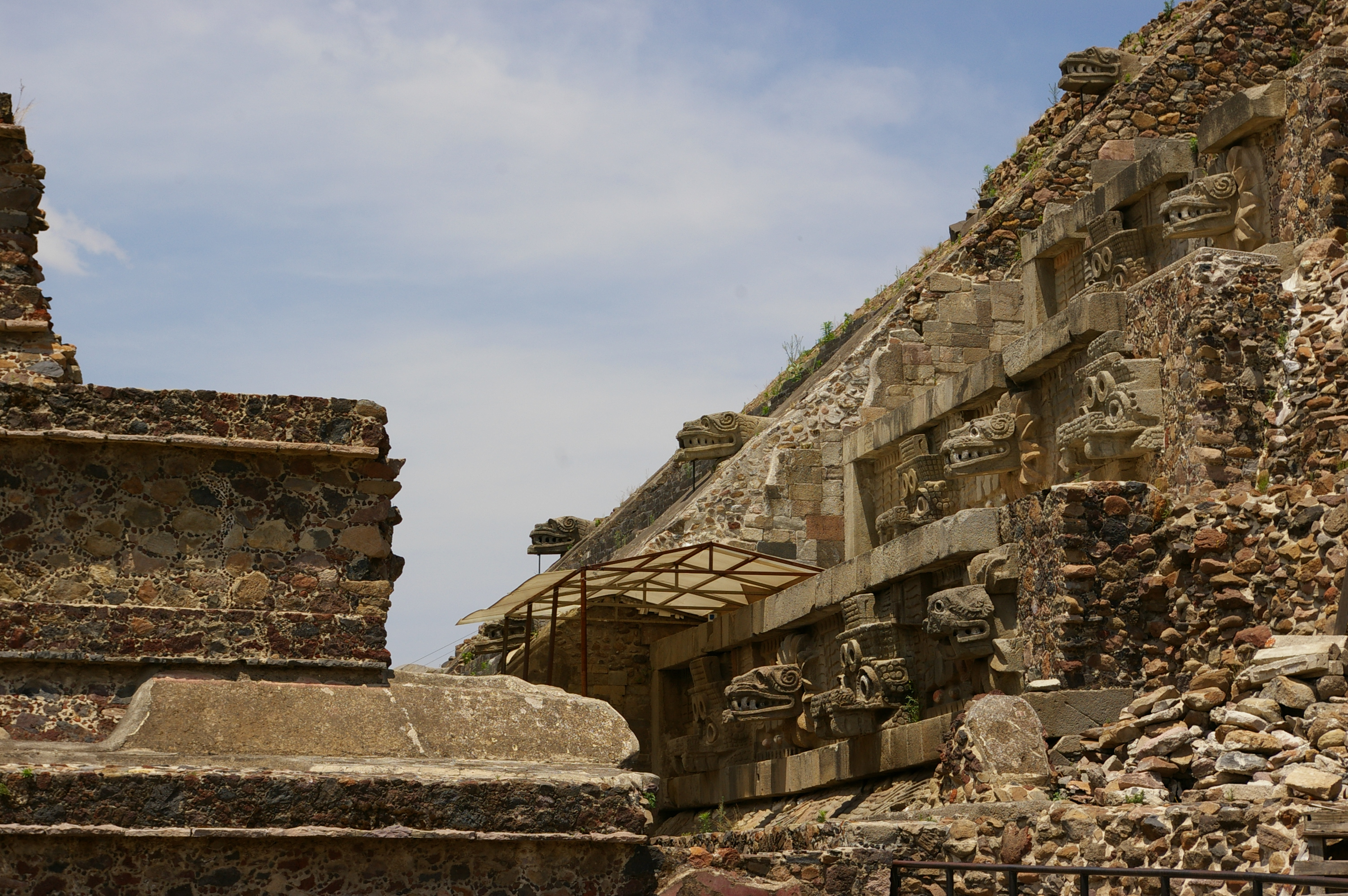 Pyramid of the Feathered Serpent view from the side at the bottom.